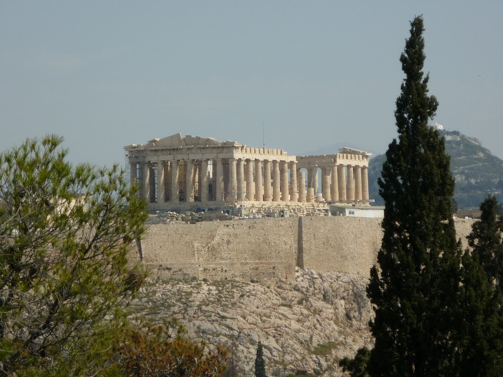 Acroplis from Filopappos Hill